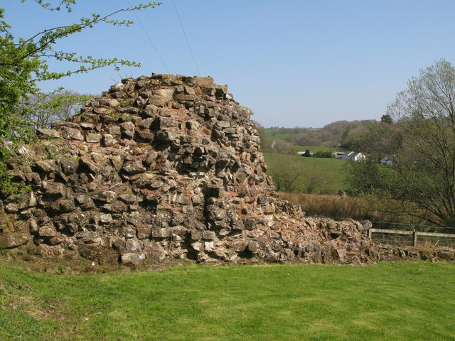 Hadrian's Wall at Hare Hill (2)